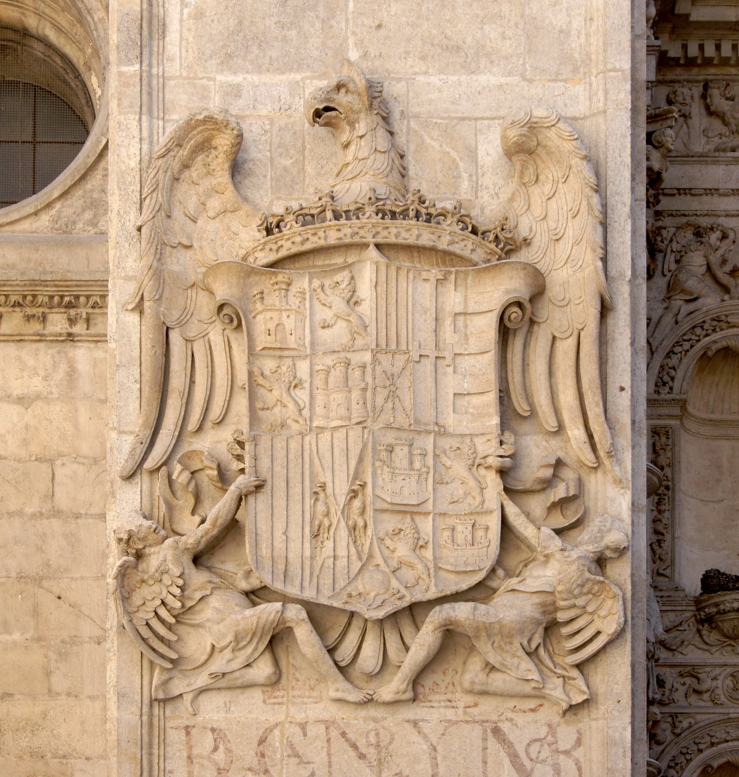 Relief of CoA of Ferdinand the Catholic, from 1513. Puerta del Perdon, Cathedral of Granada, Spain